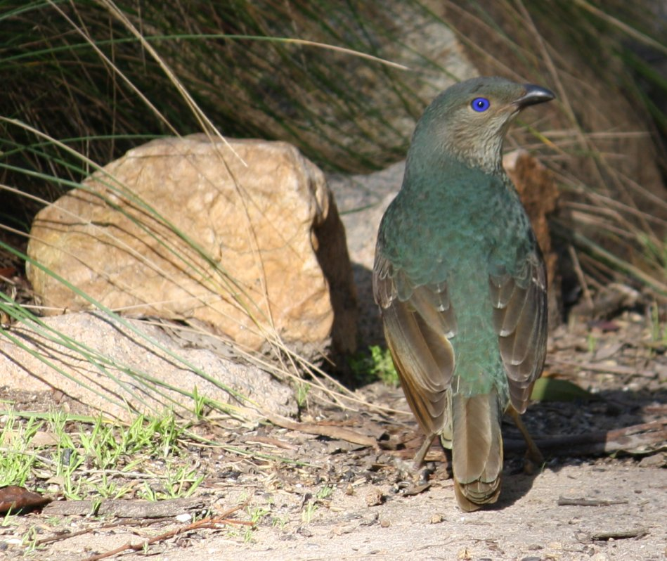 A female Satin Bowerbird in Victoria, Australia.